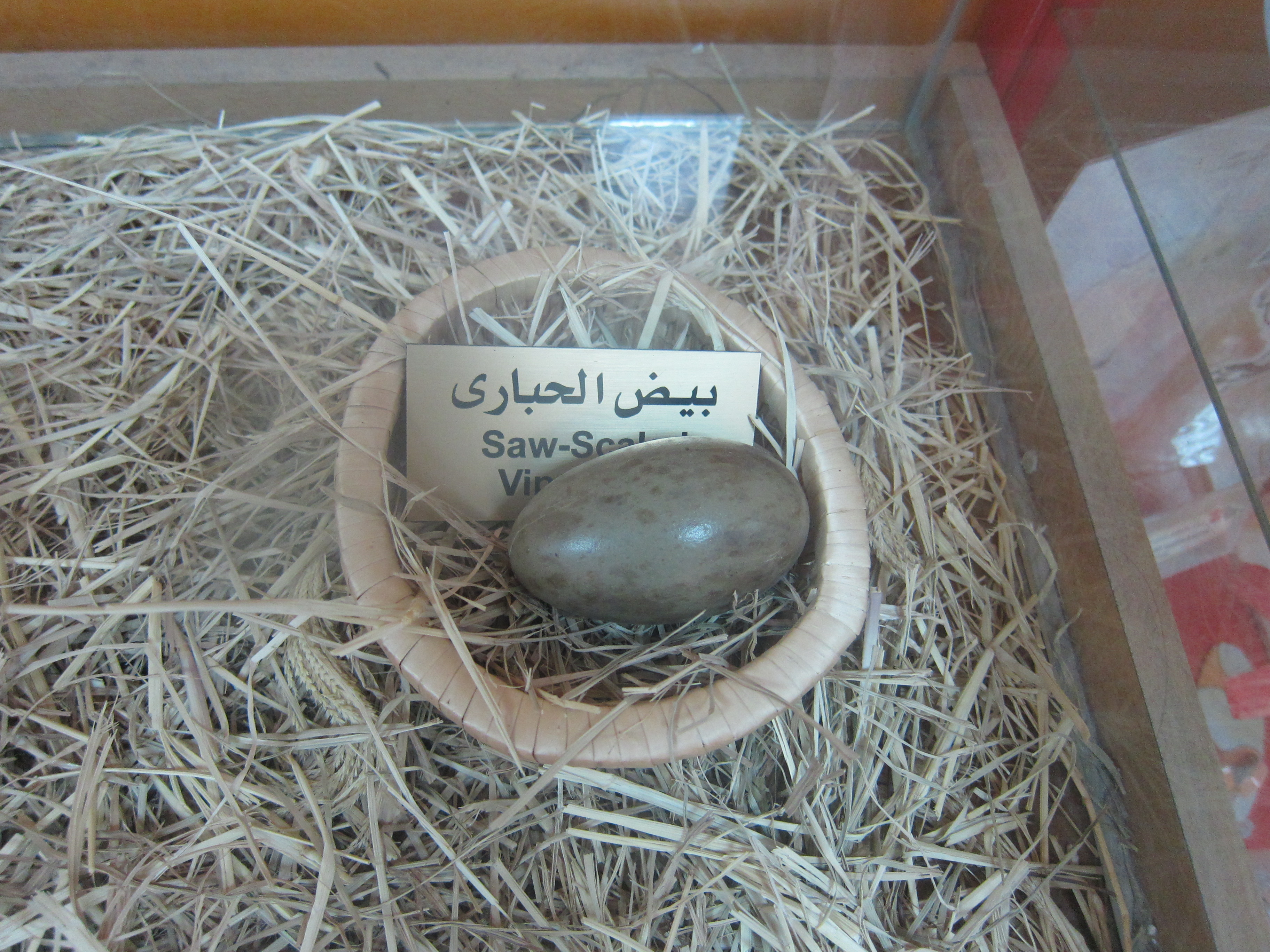 saw-scaled viper gg